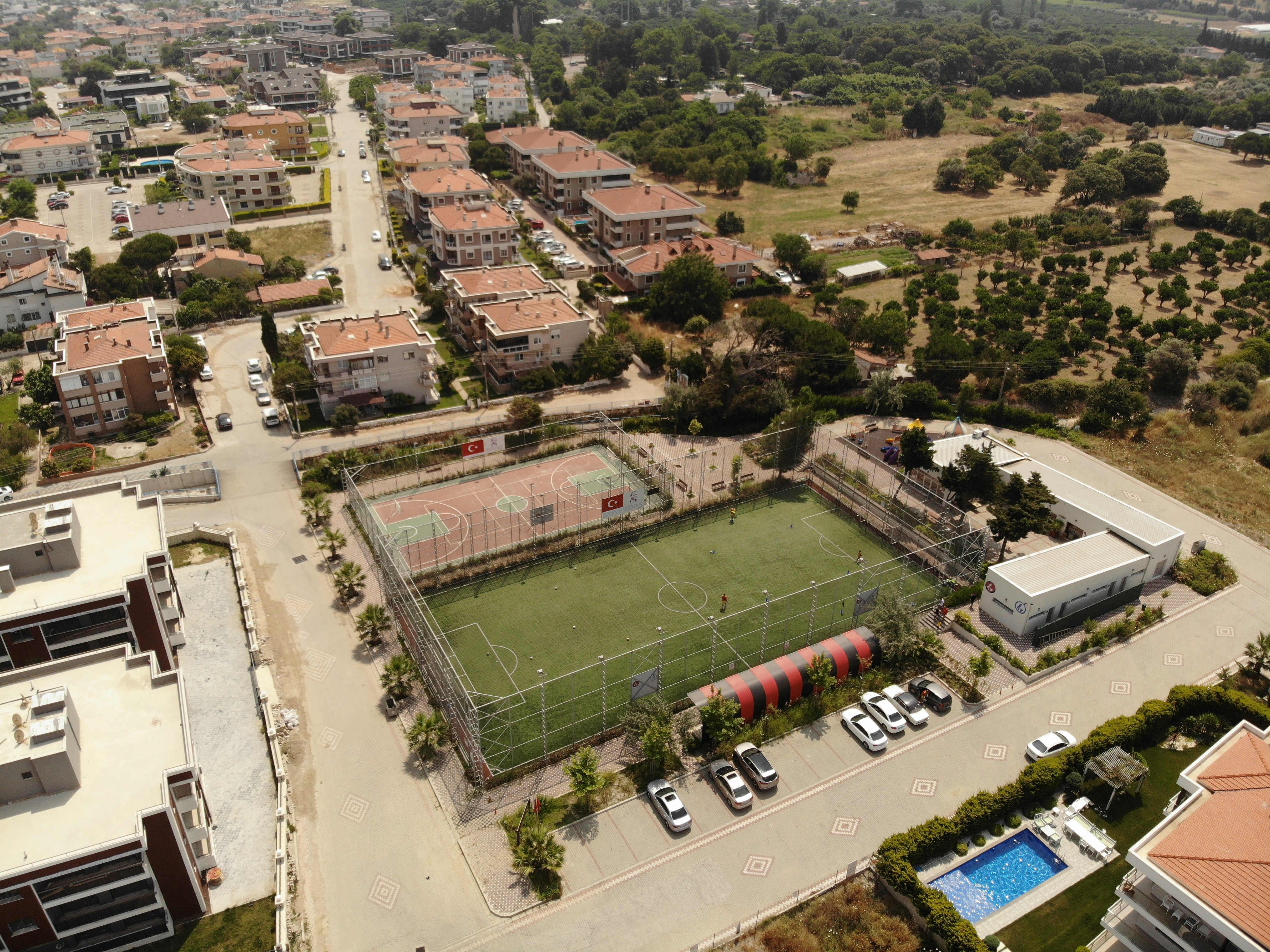 Ayşe Mayda Sports Facilities in Güzelbahçe, İzmir, Turkey.